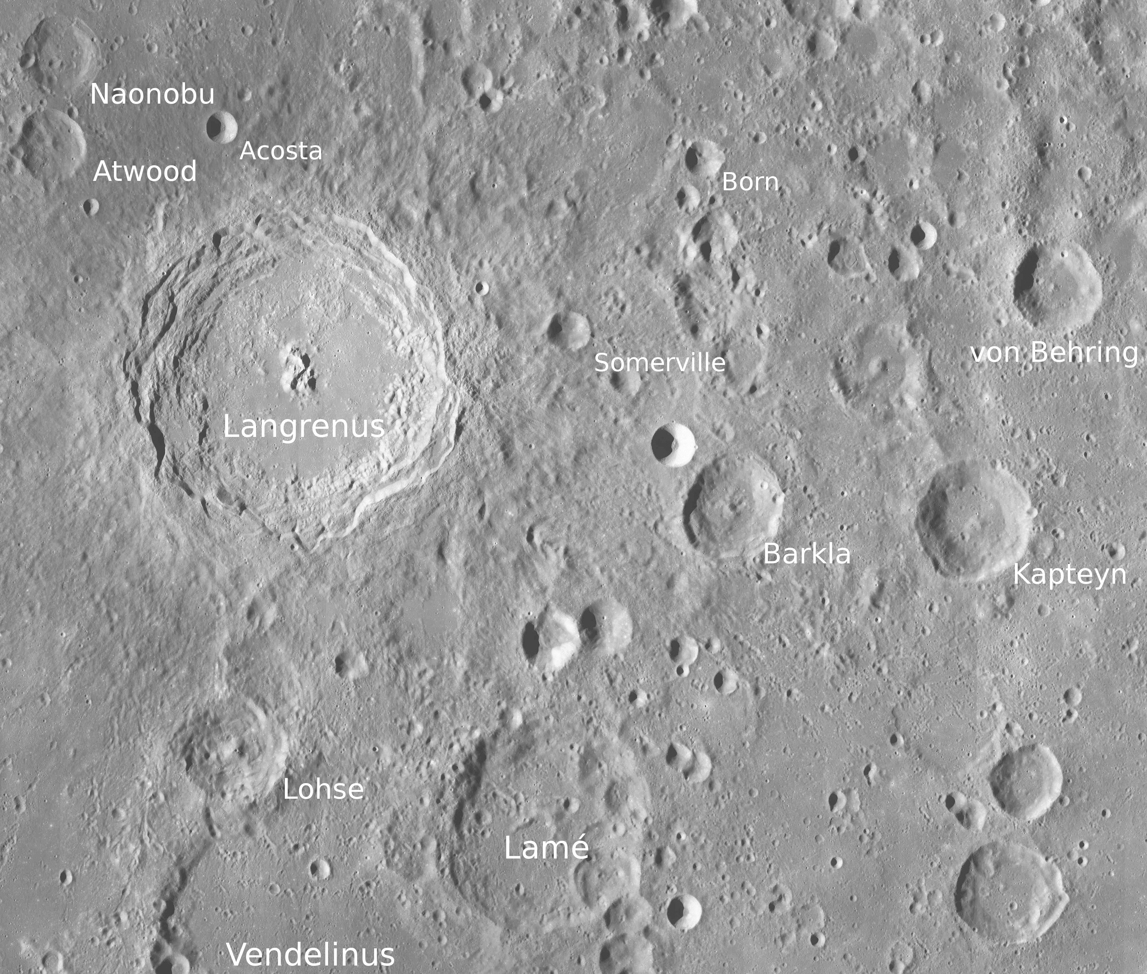 Craters Langrenus, Lamé, Barkla, Kapteyn and others (detail of LRO - WAC global moon mosaic; Mercator projection)